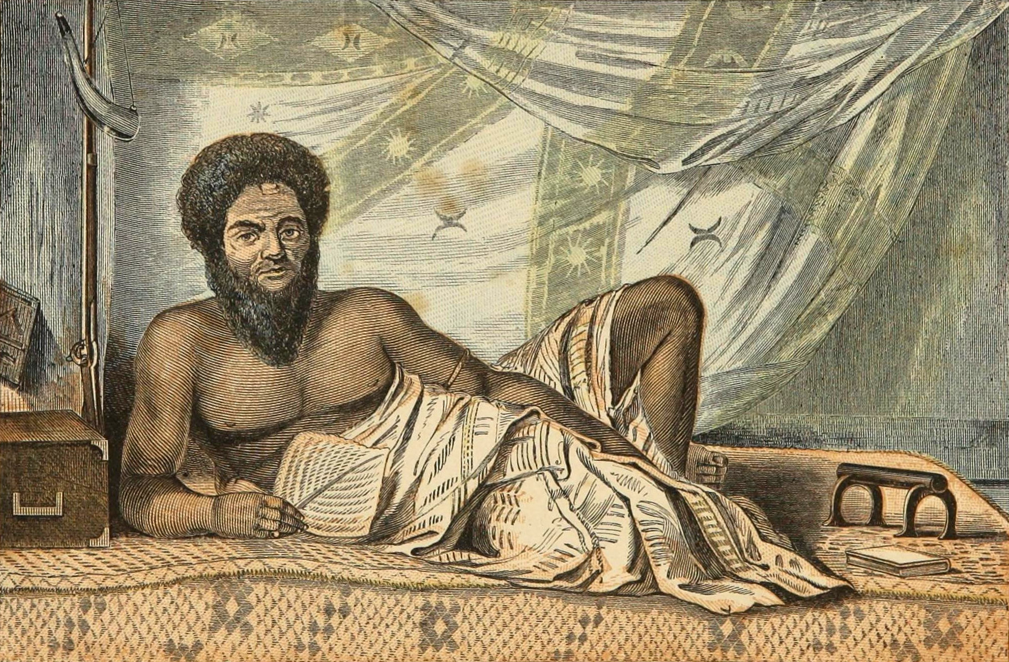 "Thakombau [Cakobau], Vu-ni-valu, King of Mbau [Bau] Fiji. Copied, by permission from an original portrait in the possession of Captain Denham, R. N. made during the Officers survey of the Fiji Islands in H. M. S. Herald."